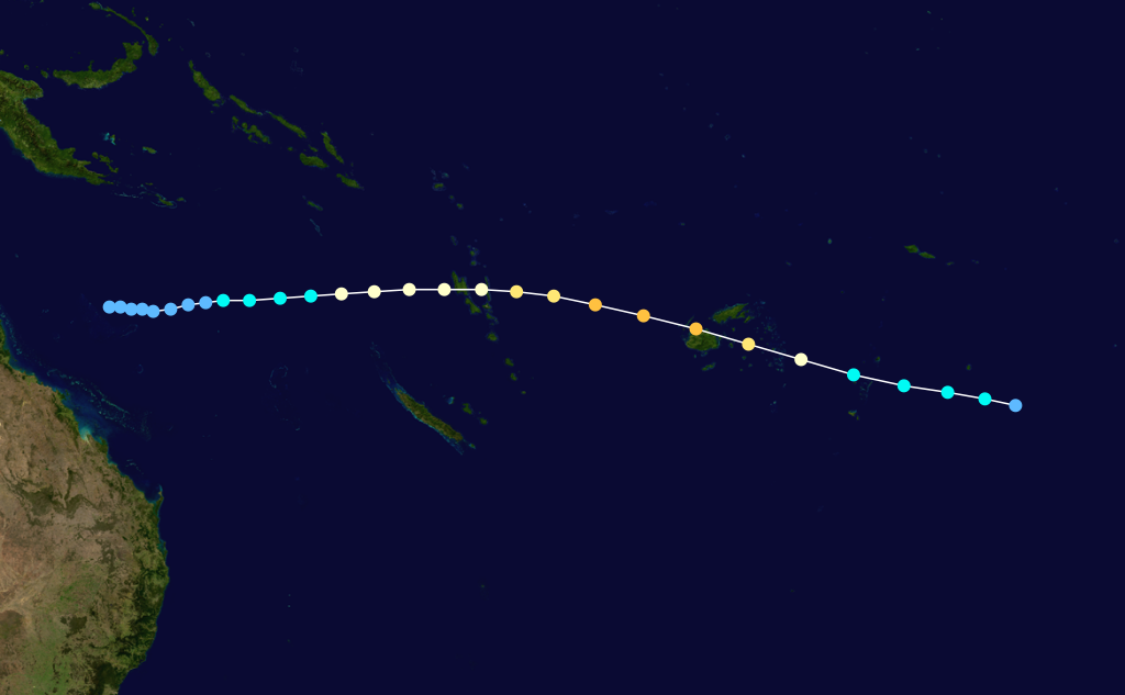 Cyclone Nigel (1985) track. Uses the color scheme from the Saffir-Simpson Hurricane Scale.